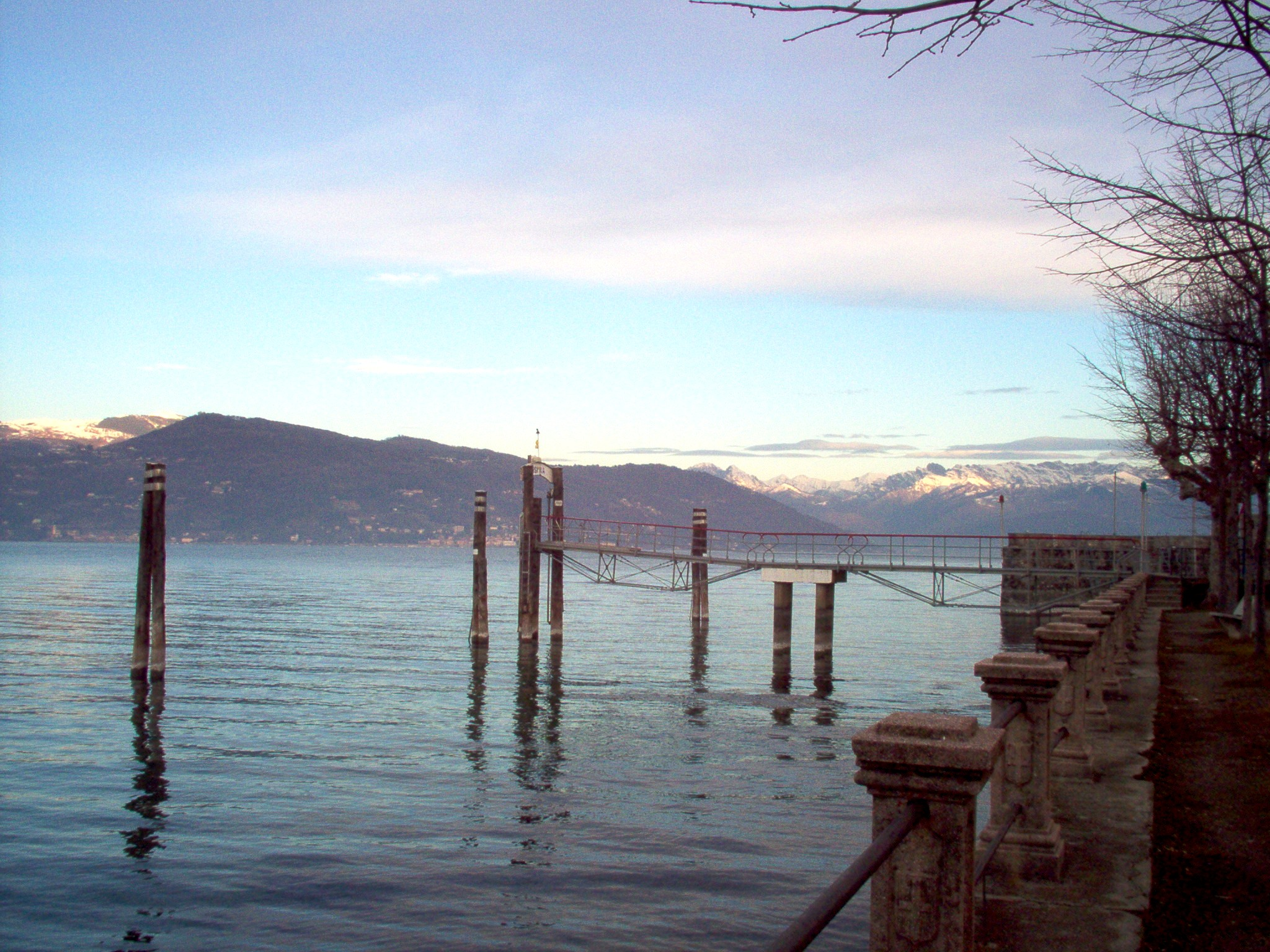 View of the lake from Ispra